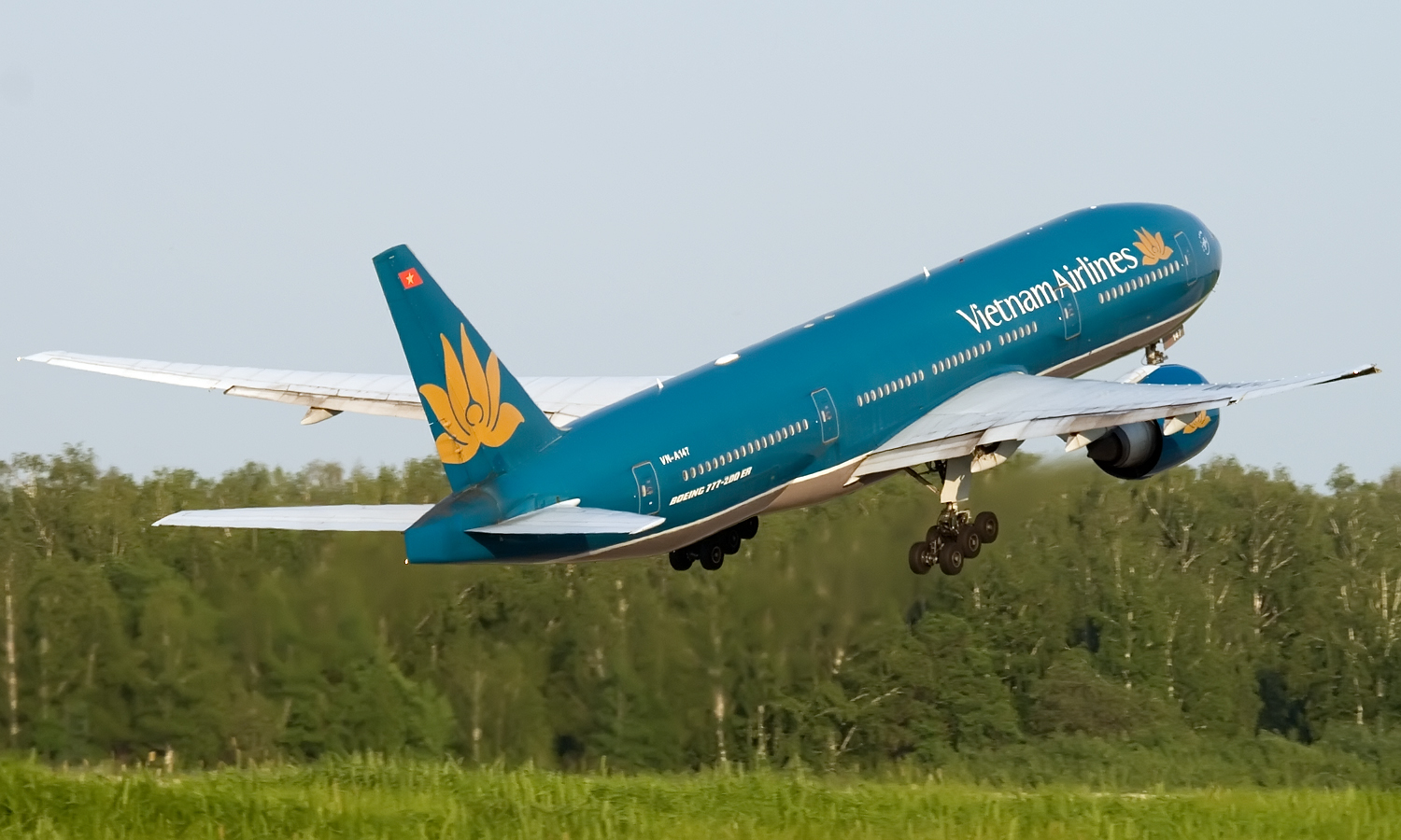 Vietnam Airlines Boeing 777-200ER taking off at Domodedovo International Airport